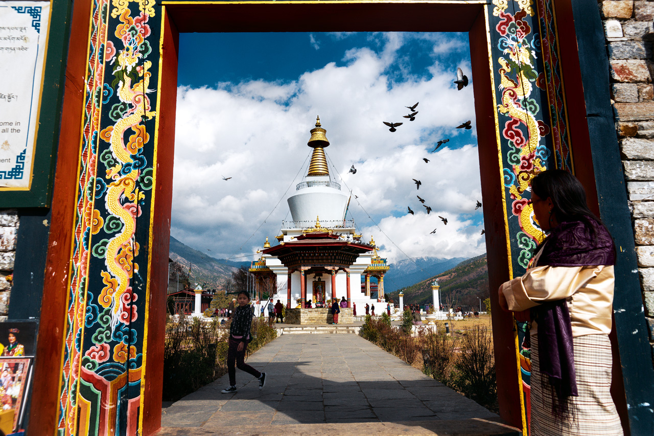 Thimphu chorten